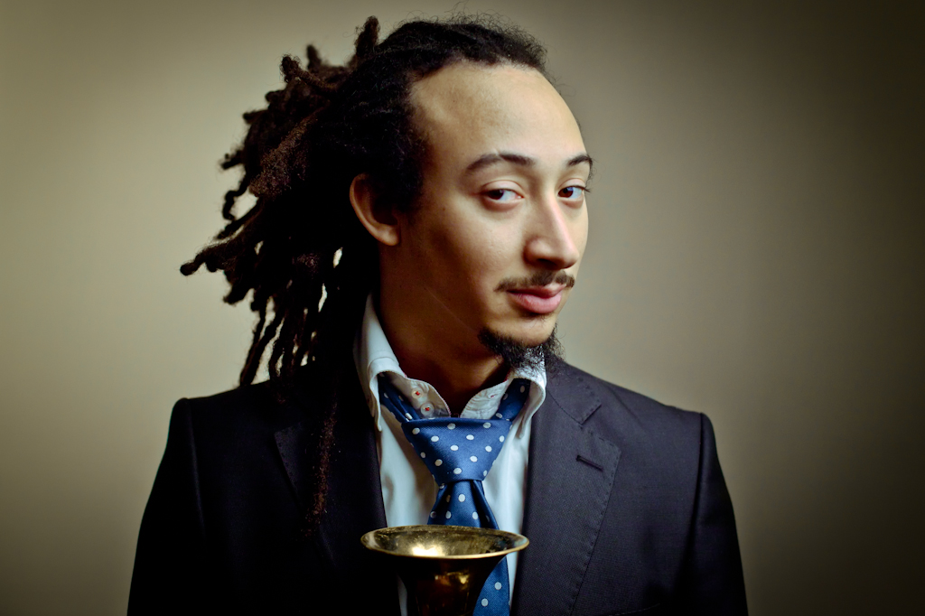 Photograph of Trumpeter "Theo Croker"